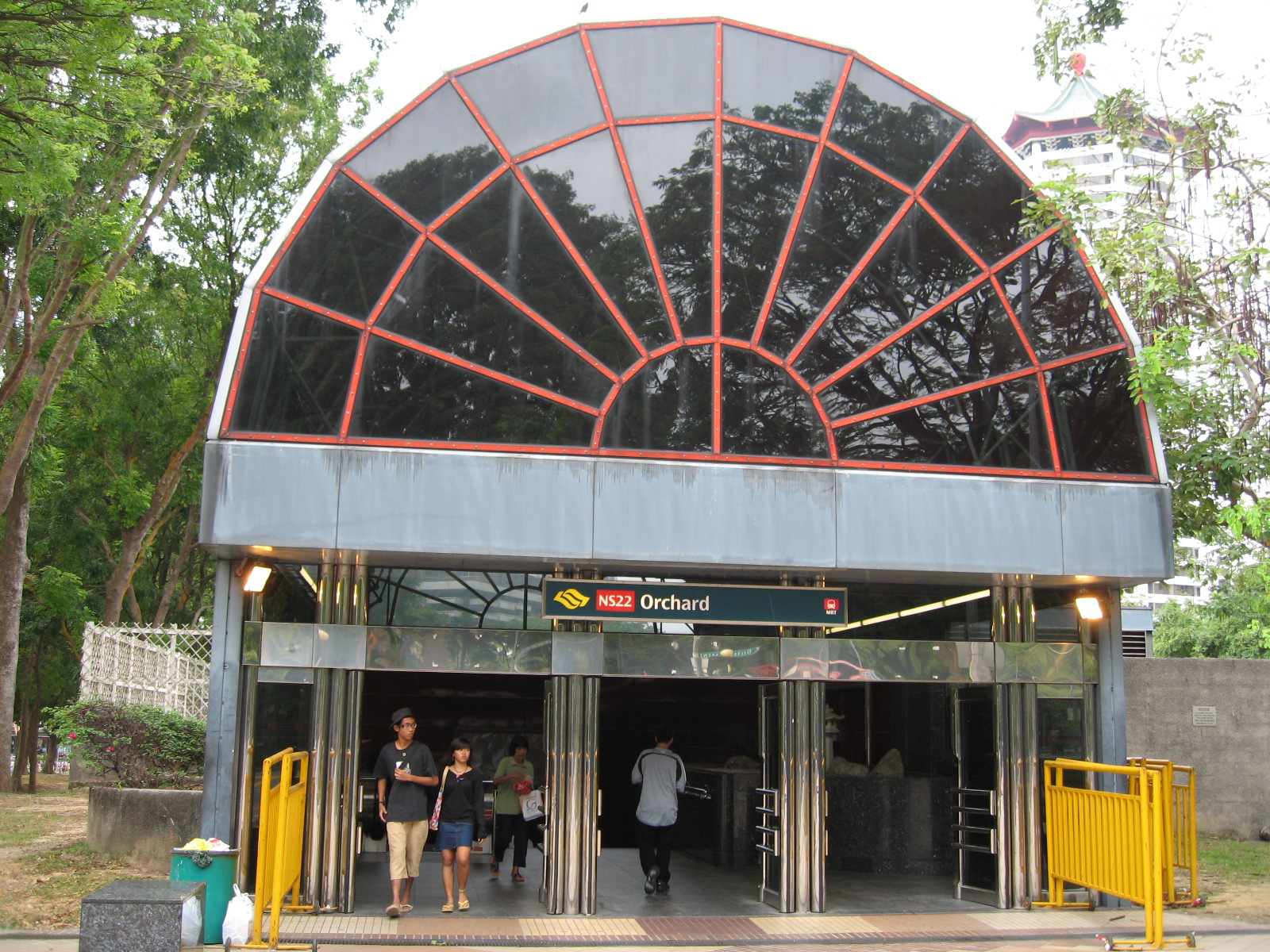 Orchard MRT Station Exit B (Orchard Boulevard).